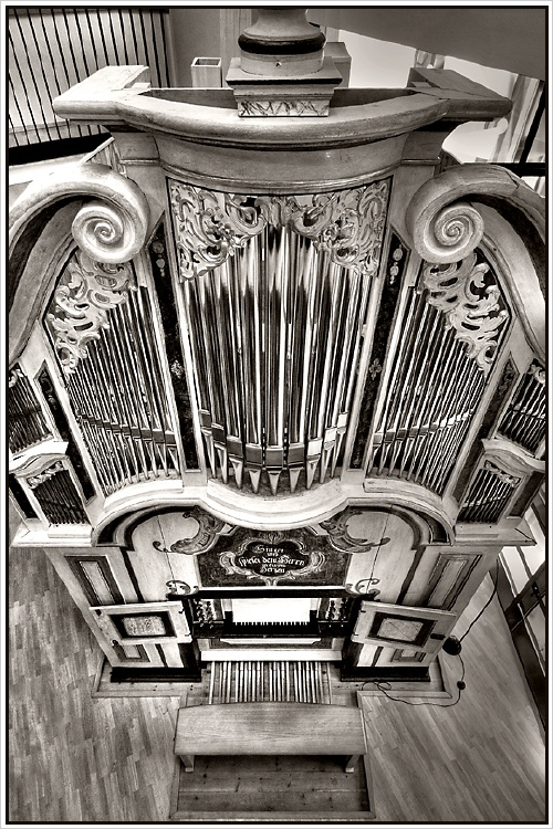 Organ in the Haendel Haus Halle Saale, Saxony-Anhalt, Germany